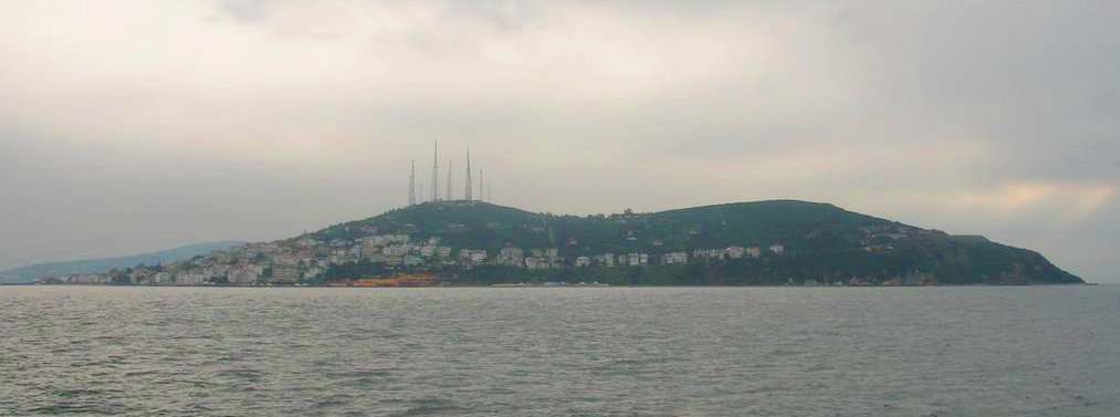 Princes' Islands,Proti or Kinaliada